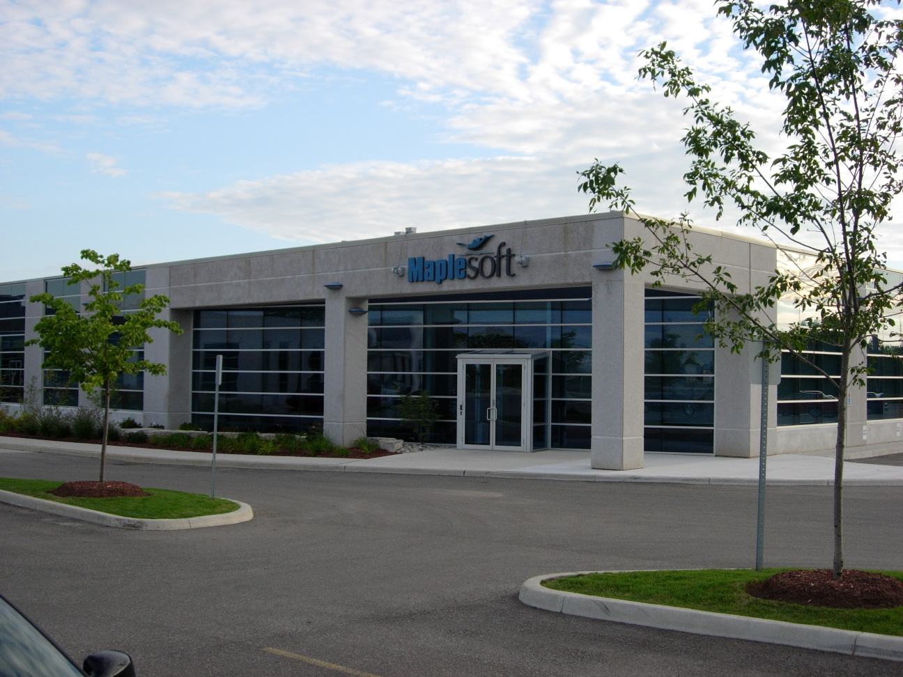 Corporate Headquarters of Maplesoft; photo taken by User:Saforrest in Waterloo, Ontario on September 1, 2004, at 15:51 EDT.